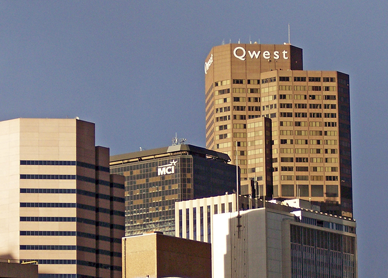 Picture of the Qwest corporate building in Denver, Colorado by User:Tijuana Brass. PD.